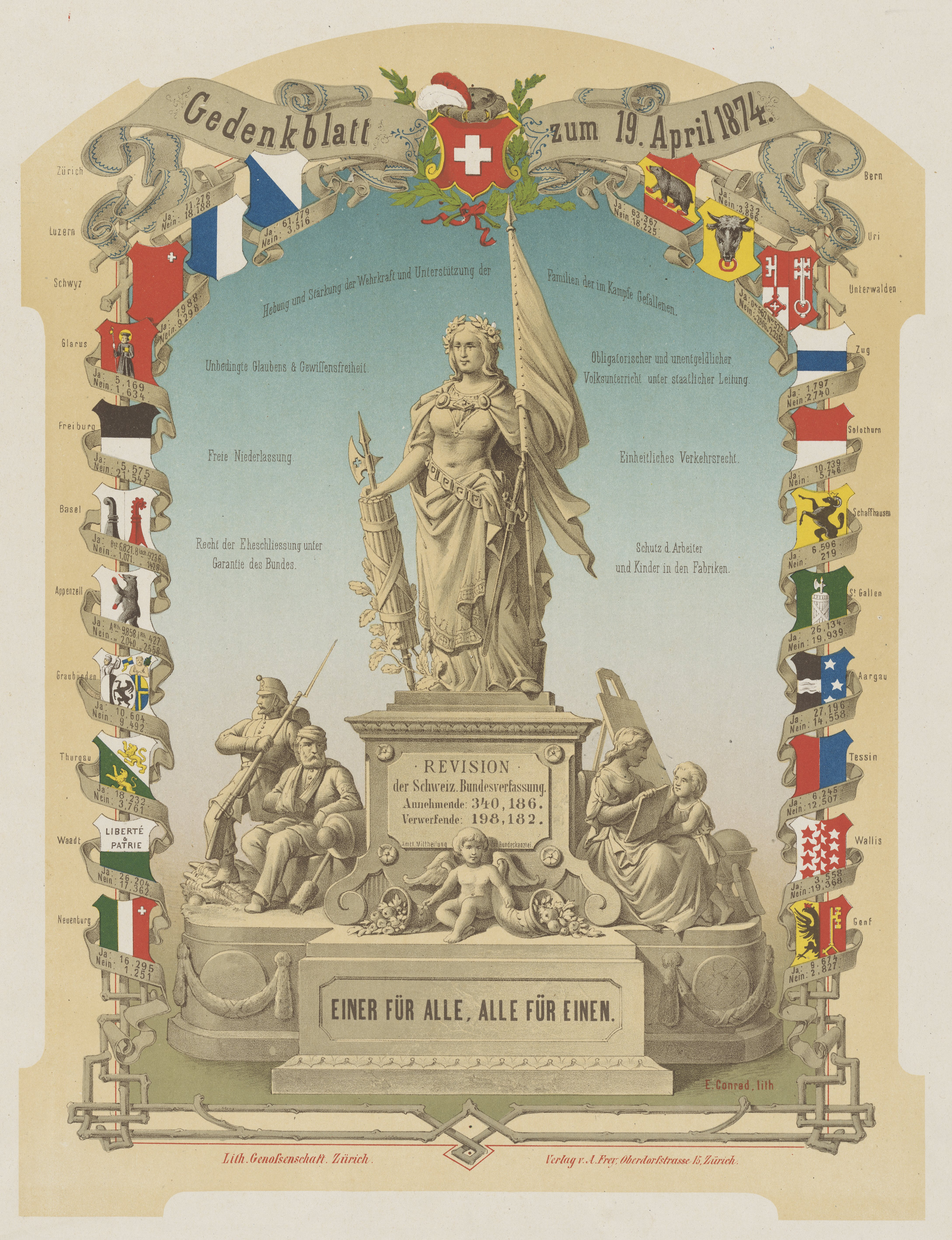 Commemorative sheet -vote on the Federal Constitution of Switzerland, 19 April 1874